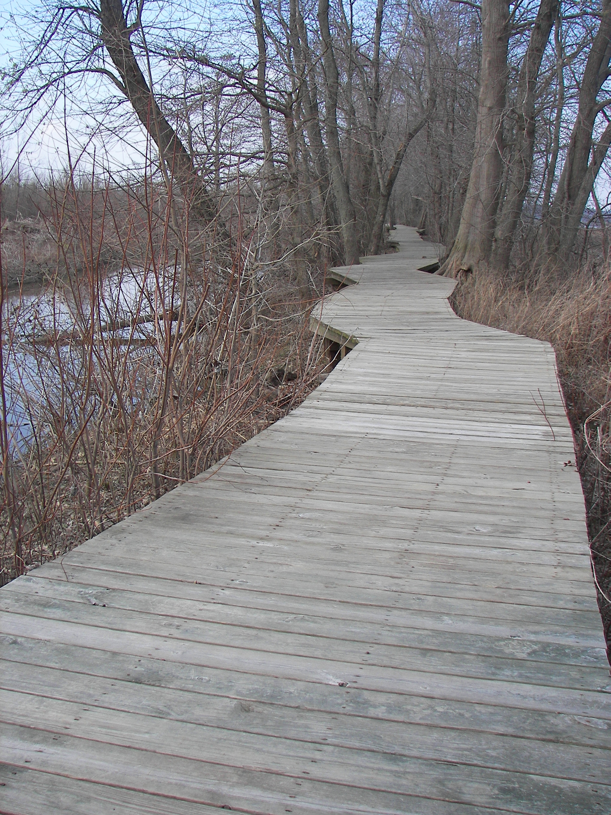 A section of the boardwalk over the swamp at Mingo National Wildlife Refuge in mid-March. The color saturation has been adjusted in this image. In all other respects it is exactly as recorded by the camera.